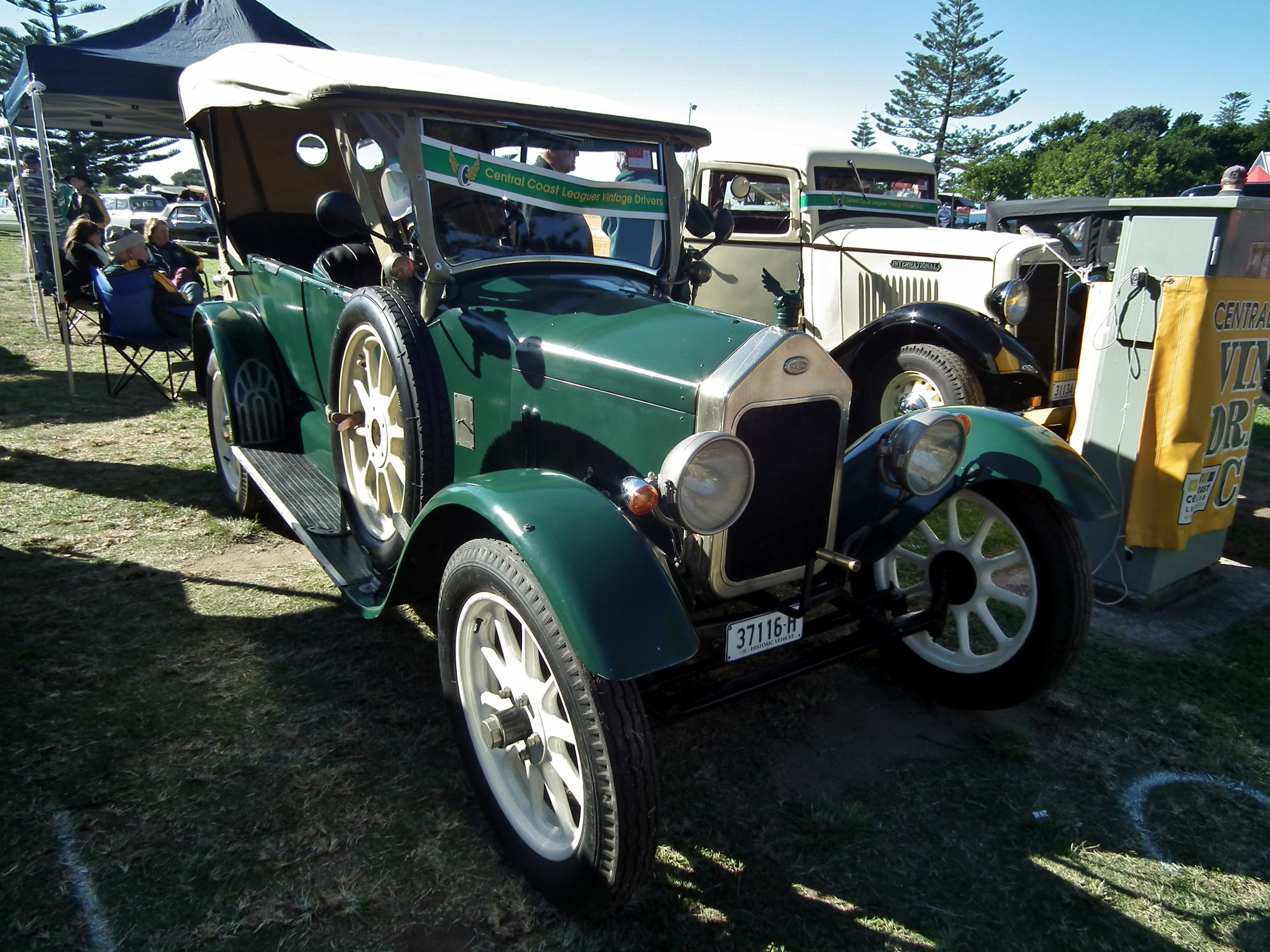 1923 Wolseley Fifteen tourer. Taken at the National Motoring Heritage Day display at Memorial Park, The Entrance, New South Wales.